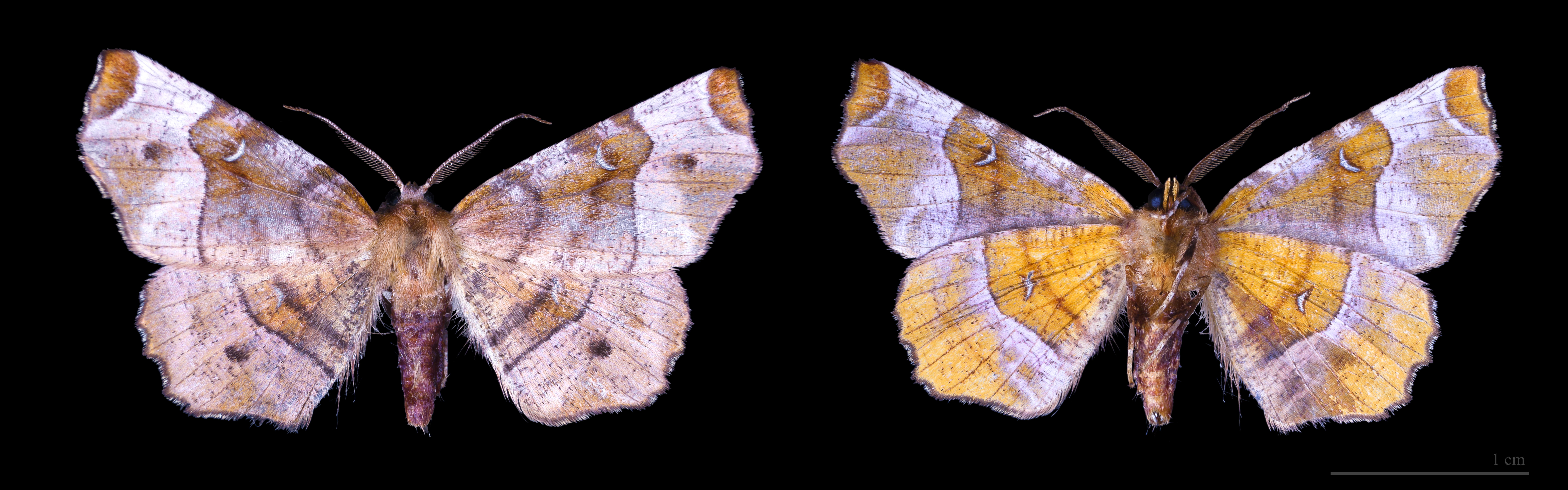 Purple Thorn ♂ - Two views of same specimen Locality: Lasparets, Sainte-Croix-Volvestre, Ariège, France